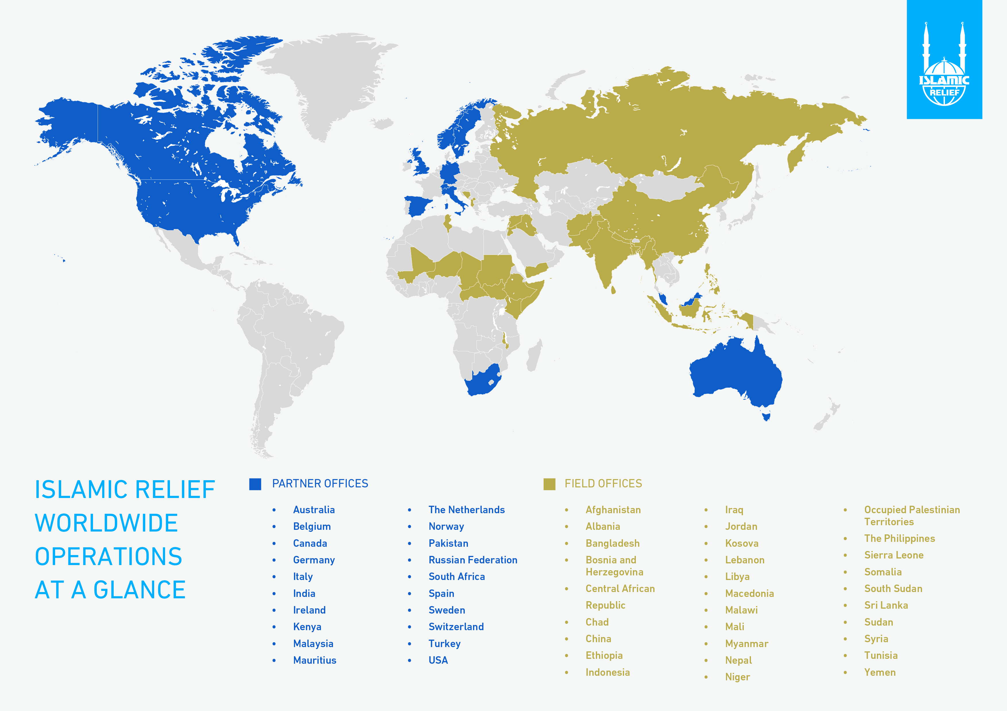 A map of partner and field offices for Islamic Relief Worldwide